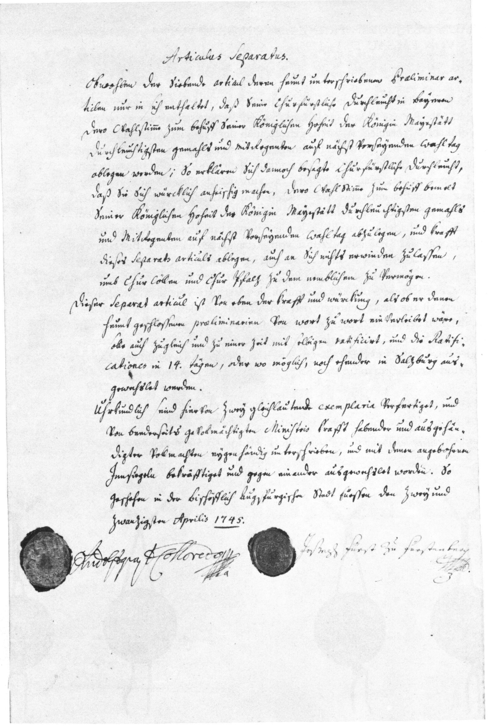 The Treaty of Füssen. Original of the separate article in which the Elector of Bavaria Maximilian III Joseph binds himself to support the imperial candidacy of Grand Duke Francis Stephen of Tuscany. München, Bayerisches Hauptstaatsarchiv, Bayern Urk. 1019.